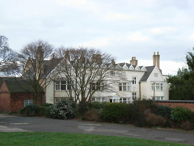 Pype Hayes Hall, front view. Pype Hayes Hall is situated inside Pype Hayes Park. It is currently used as local government offices.